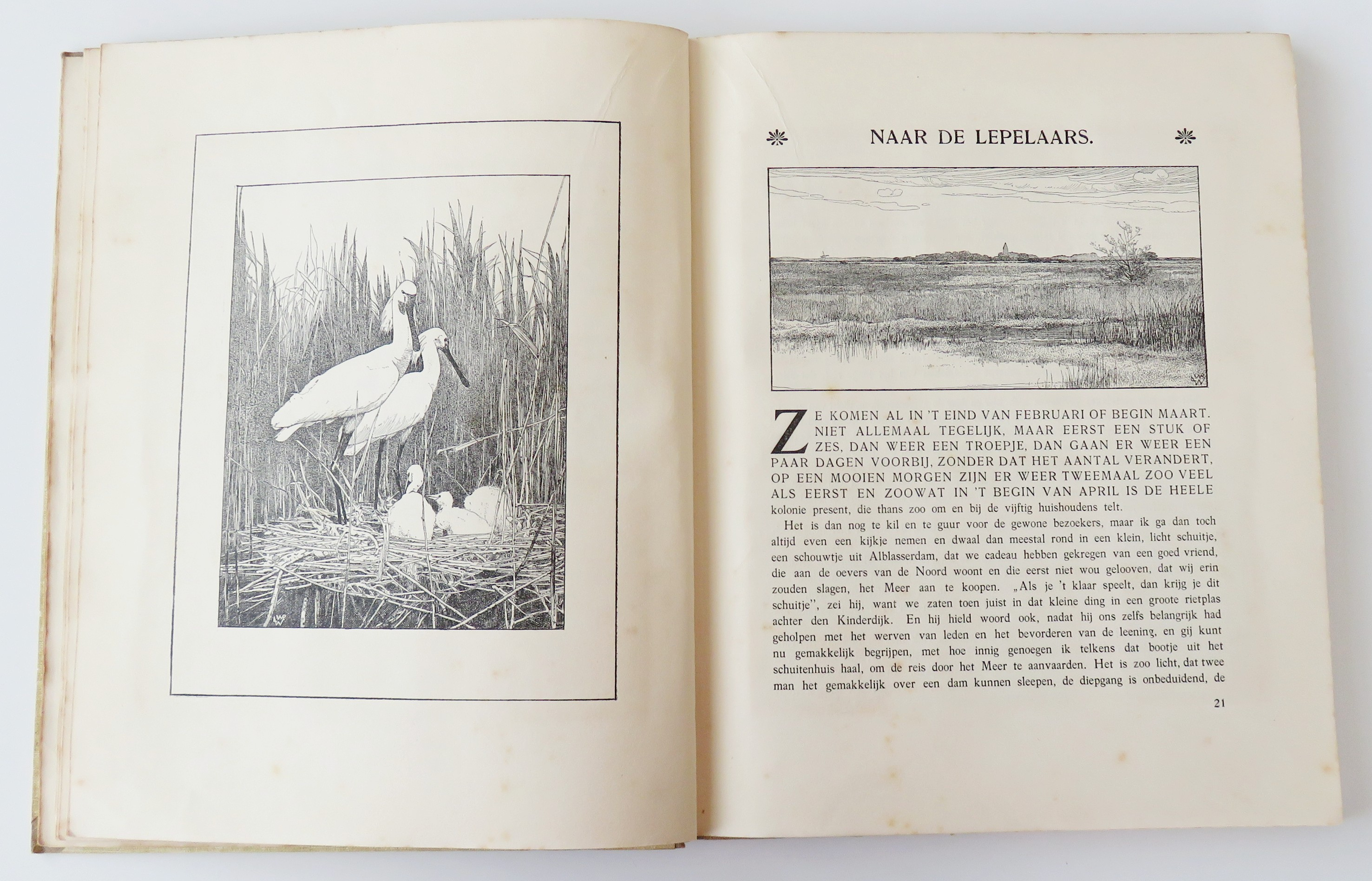 Two pages (20/21) of the book Het Naardermeer by Jac. P.Thijsse Illustrations by Willem Wenckebach (1860–1937) Alternative names Ludwig Willem Reijmert WenckebachDescriptionDutch lithographer, painter, draughtsman and designerDate of birth/death 12 January 1860 25 June 1937Location of birth/death The Hague SantpoortWork periodcirca 1875-1937Work location Amsterdam, Utrecht (1880-1886), Amsterdam (?-1898), SantpoortAuthority control : Q1895785 VIAF: 29351375 ISNI: 0000 0000 7736 2086 ULAN: 500021630 LCCN: no2008112136 Open Library: OL2356135A WorldCat creator QS:P170,Q1895785